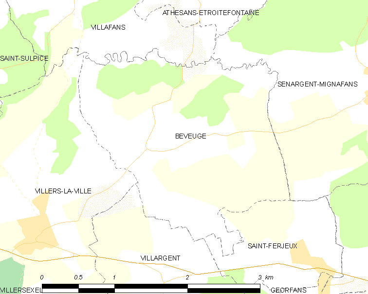 Map of French municipality